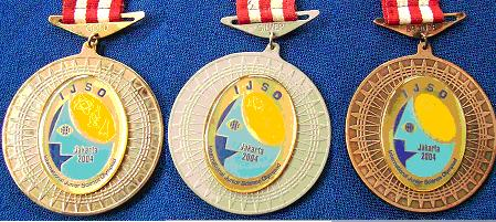 Medalhas da IJSO 2004.